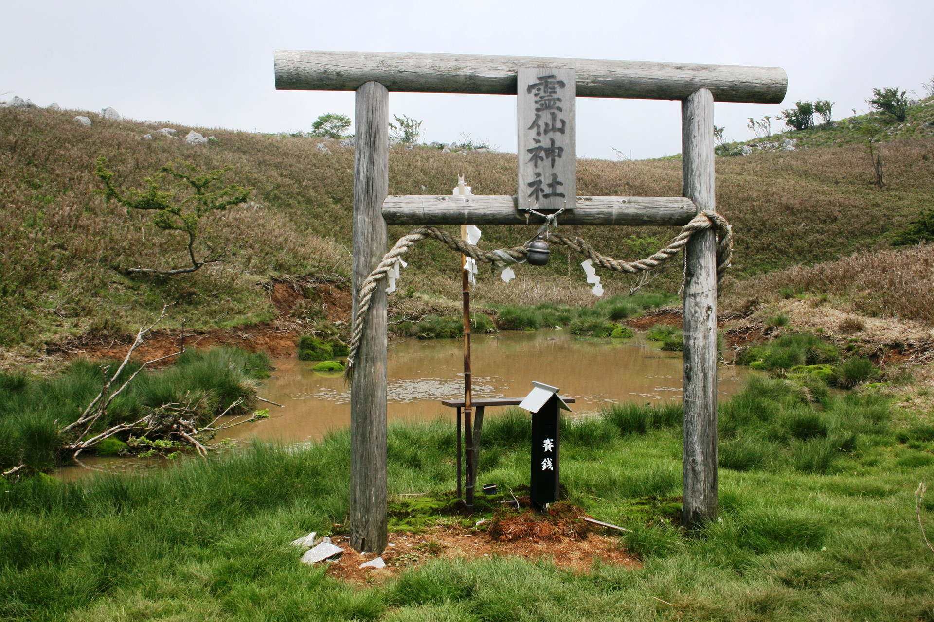 Otoragaike and Ryozen shrine on Mount Ryozen of Suzuka Mountains